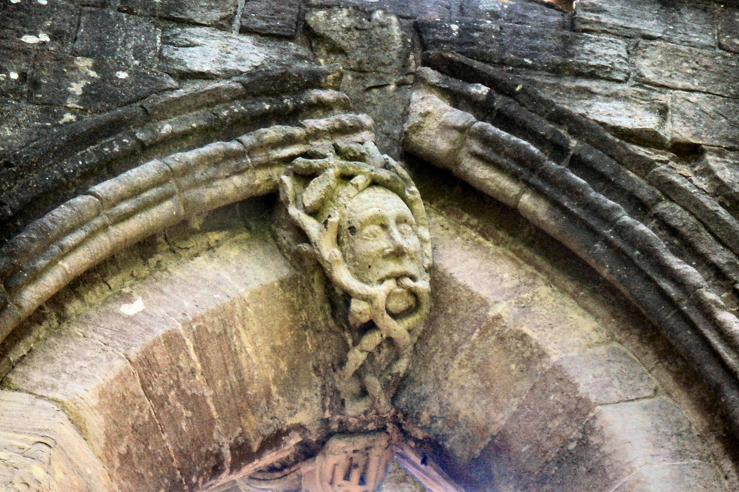 Green man over a church window in Fountains Abbey